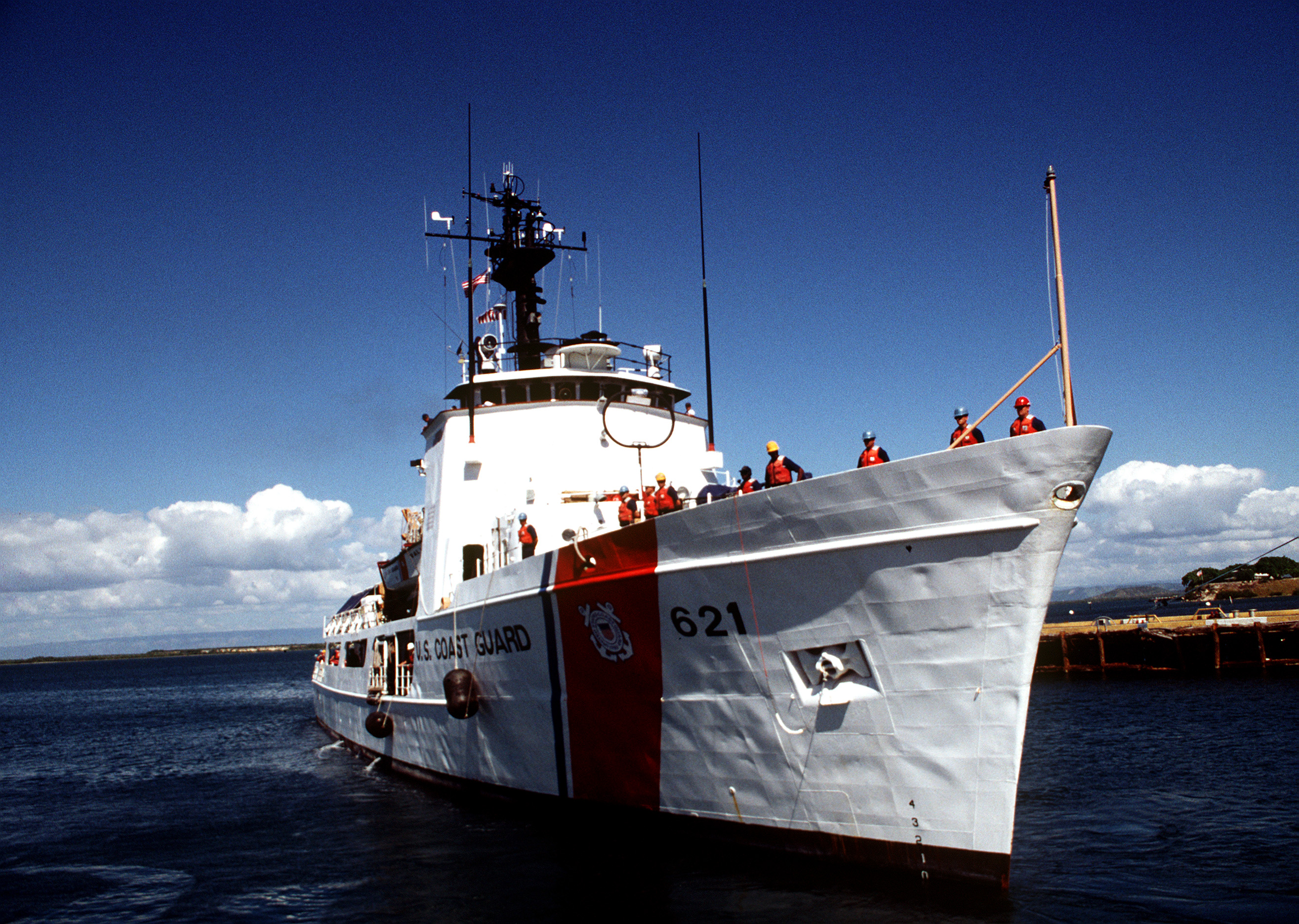 The U.S. Coast Guard Cutter Valiant leaves with voluntary Haitian repatriates.